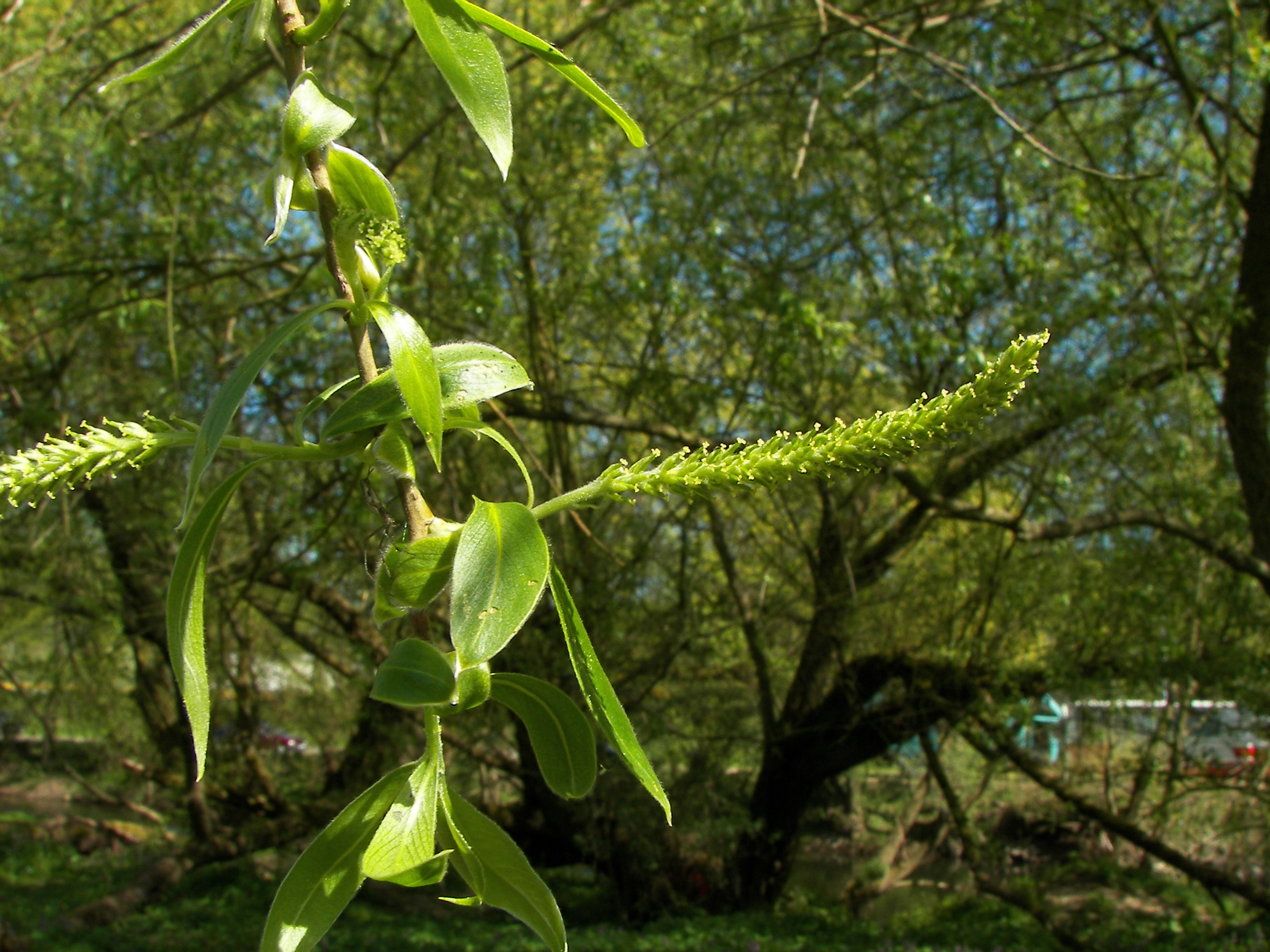 White Willow (Salix alba), female catkins, Location: Marburg, Hesse, Germany